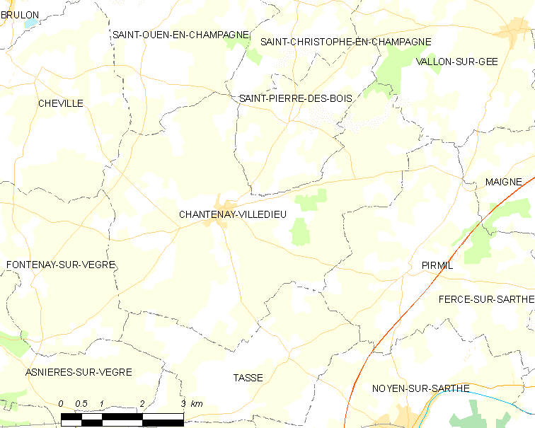 Map of French municipality